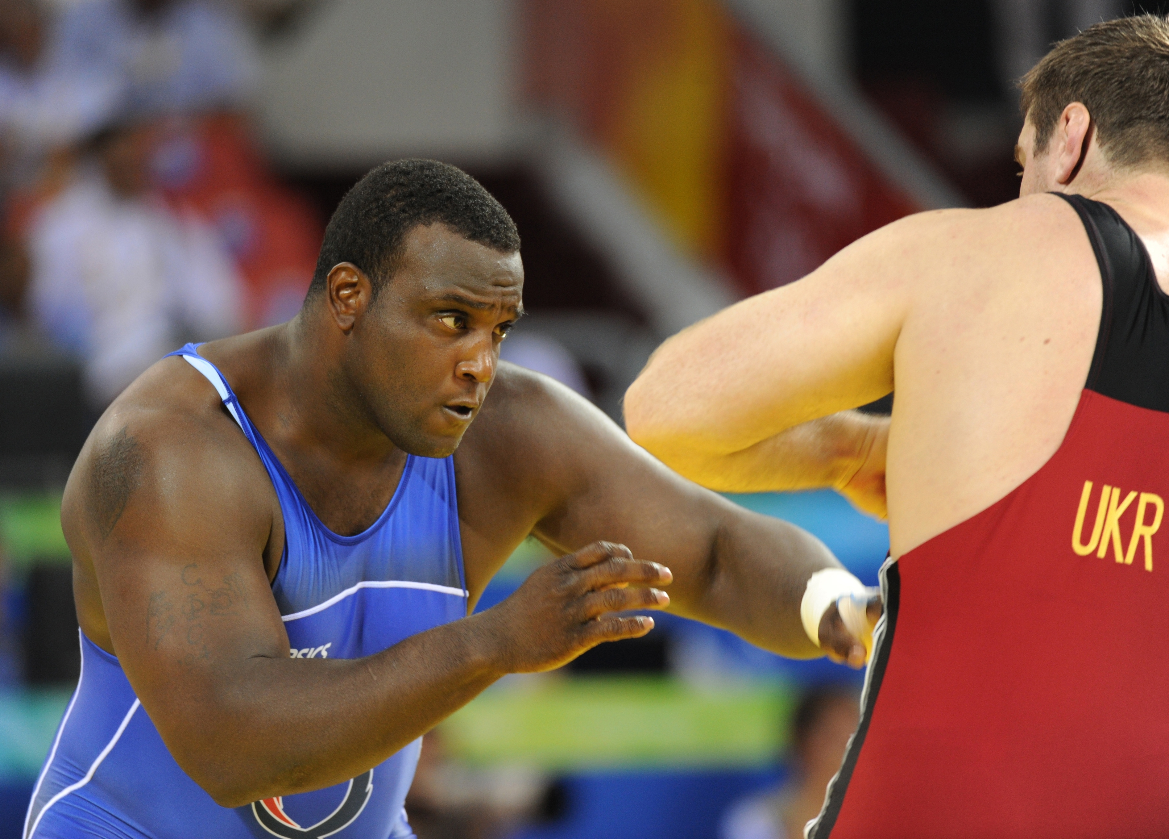 Army World Class Athlete Program Staff Sgt. Dremiel Byers wrestles to a 1-1, 2-0 victory over Oleksandr Chernetskyi of Ukraine in their opening match of the Olympic Greco-Roman 120-kilogram tournament August 14th at the China Agricultural University Gymnasium in Beijing.